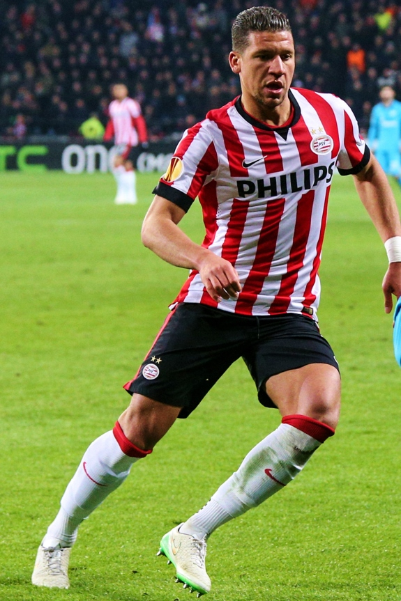 Jeffrey Bruma